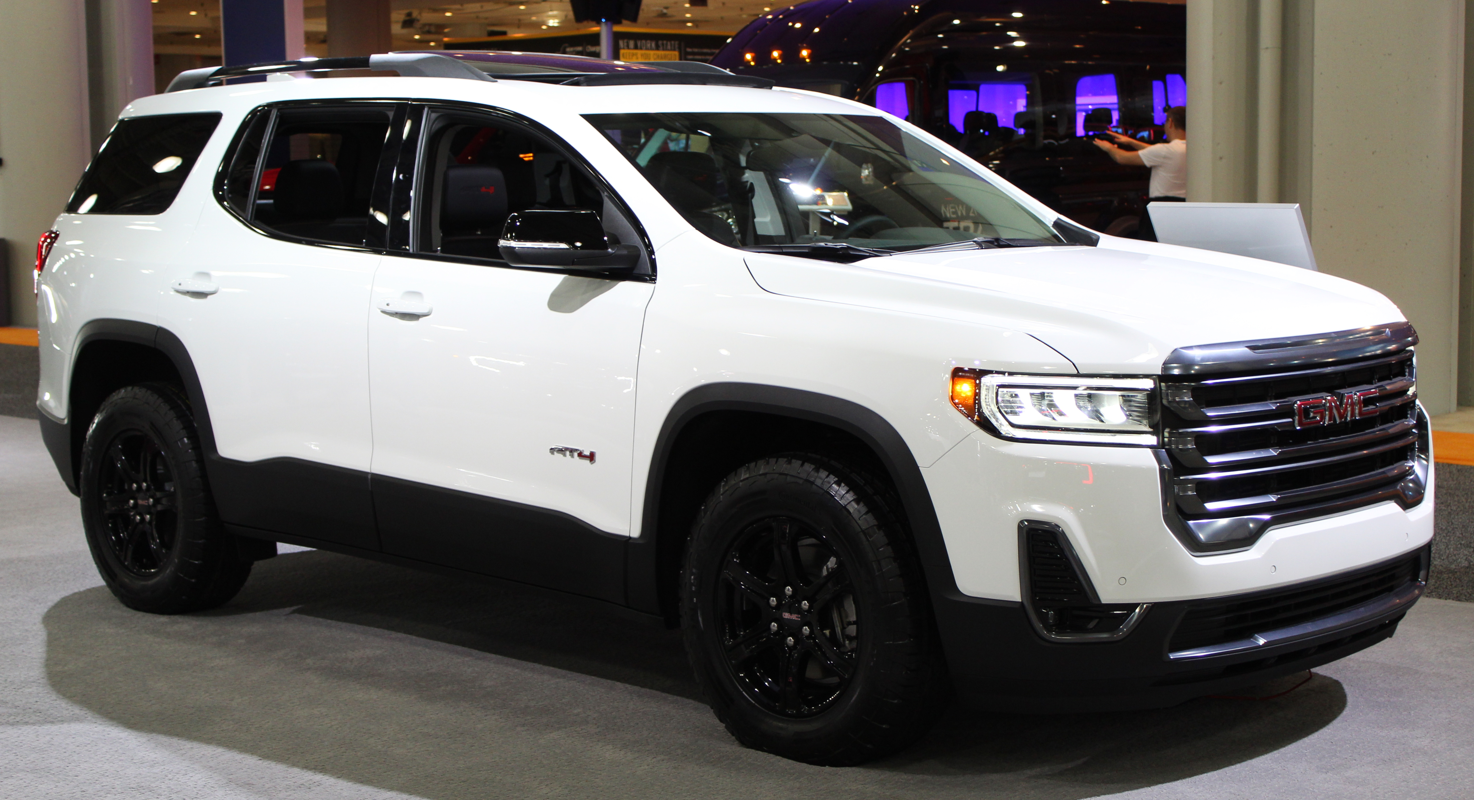 A 2020 GMC Acadia AT4 photographed during the 2019 New York International Auto Show, in Hudson Yards, Manhattan, NYC